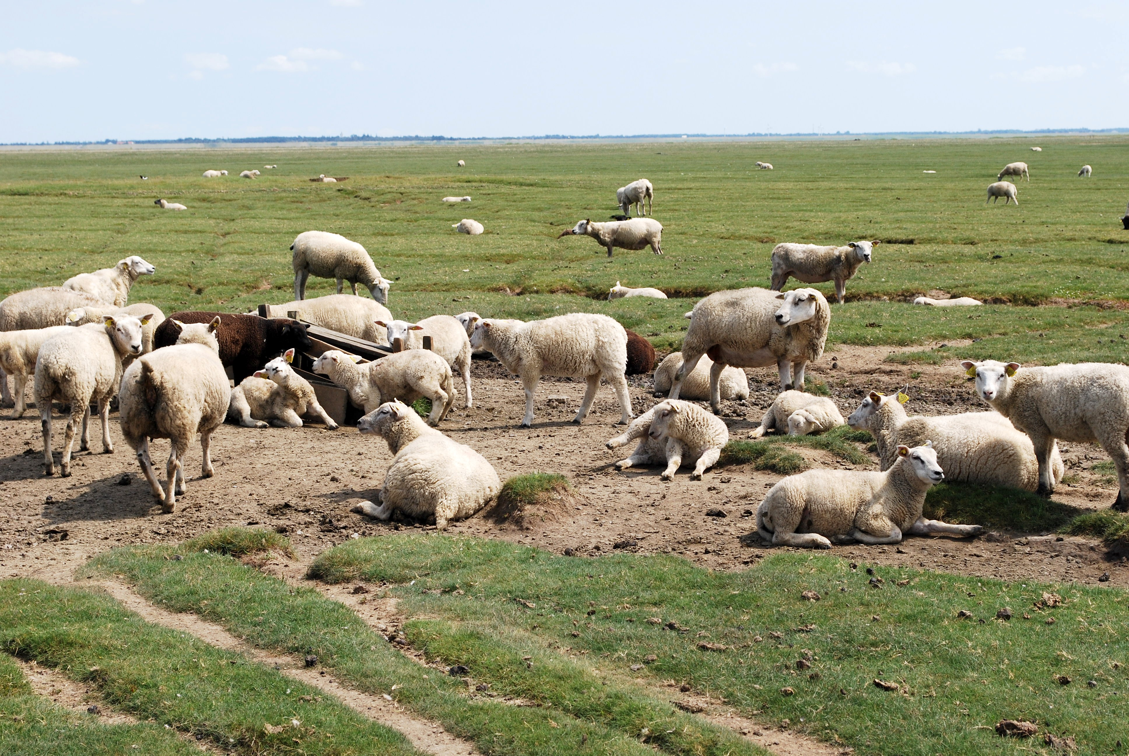 Mandø - Denmark